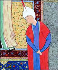 Painting of Siyavush in The Shahnama of Shah Tahmasp